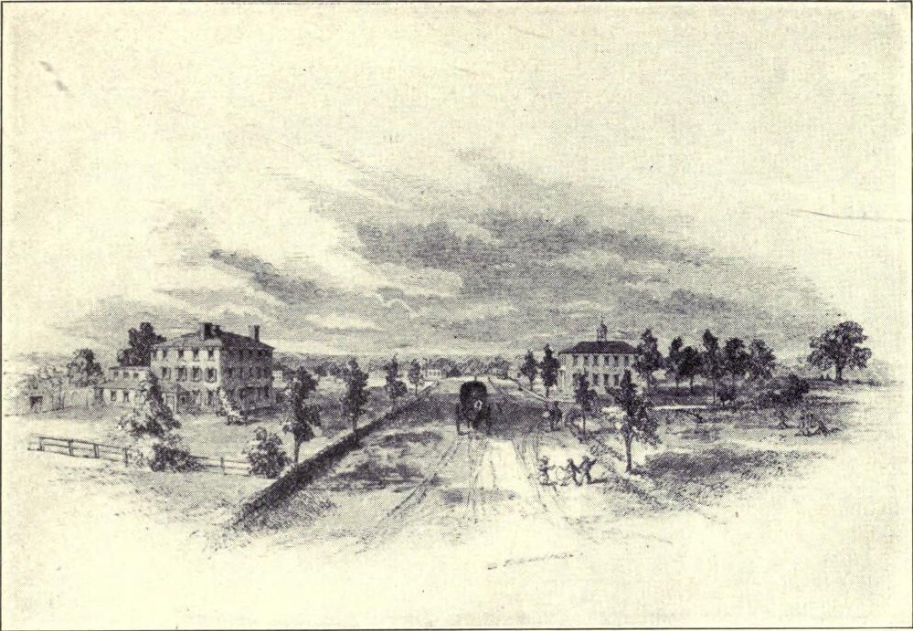 A view of Phillips Academy on Main Street looking north.